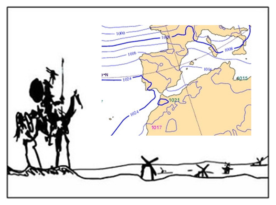 Illustration for the article "El Quijote y la Meteorología". Donol's drawing